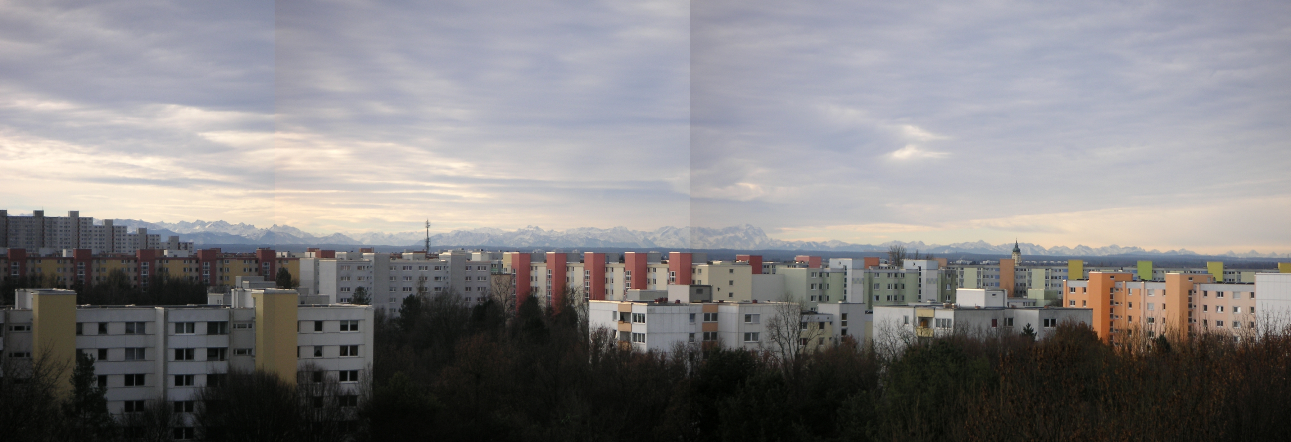 Munich/Neuperlach, View from Ostpark to Neuperlach and Perlach with the Alps in the background